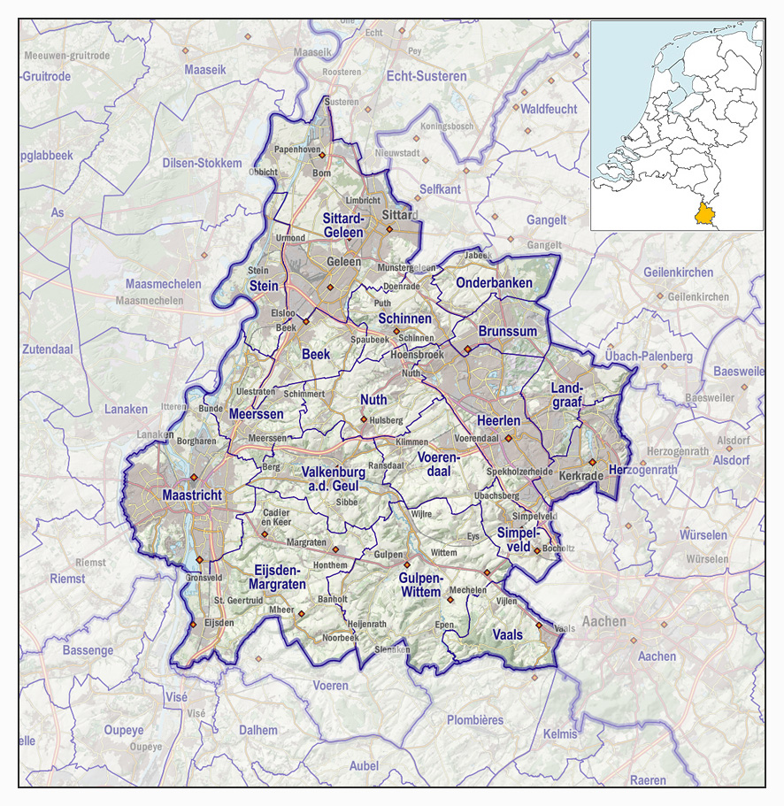 Map of the Dutch Safety Region, with an impression of the terrain and the municipal borders as of 1-1-2017.